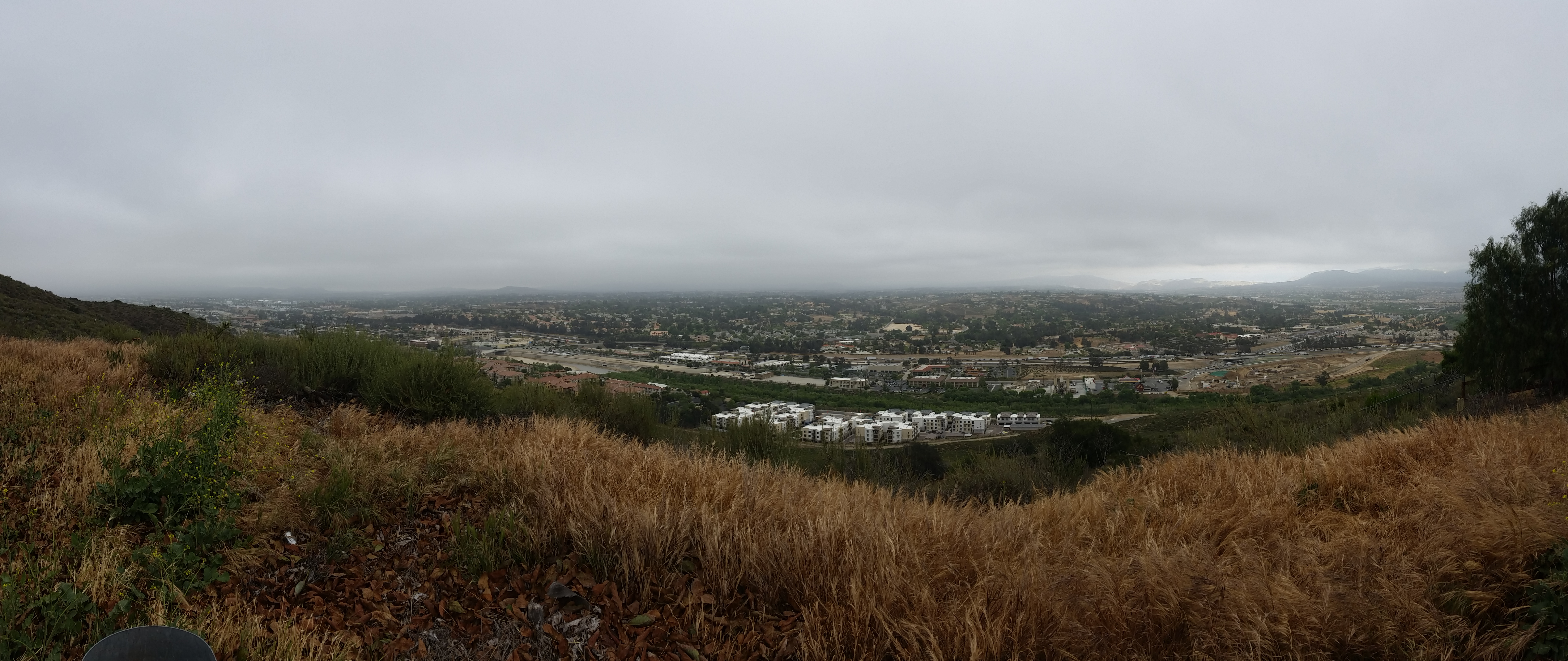 A panoramic photograph of Temecula Valley as seen at the east end of Via Horca